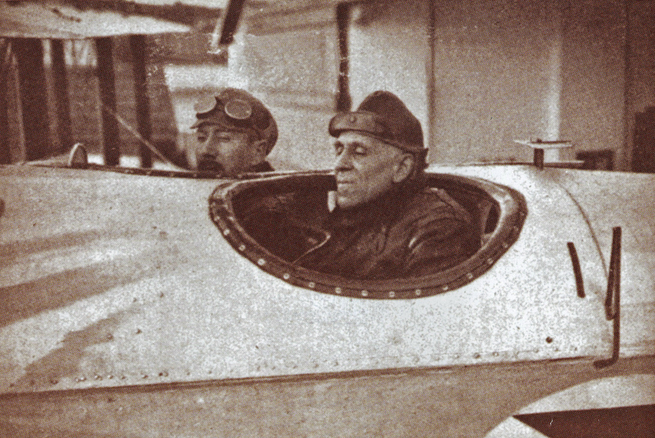 Gago Coutinho (1869-1959), a Portuguese aviation pioneer that, together with Sacadura Cabral (1881-1924), was the first to cross the South Atlantic Ocean by air, from March to June 1922 (some sources wrongly claim 1919), from Lisbon to Rio de Janeiro. Scan from a printed picture from Book "Portugal um século de imagens" (unknown author).